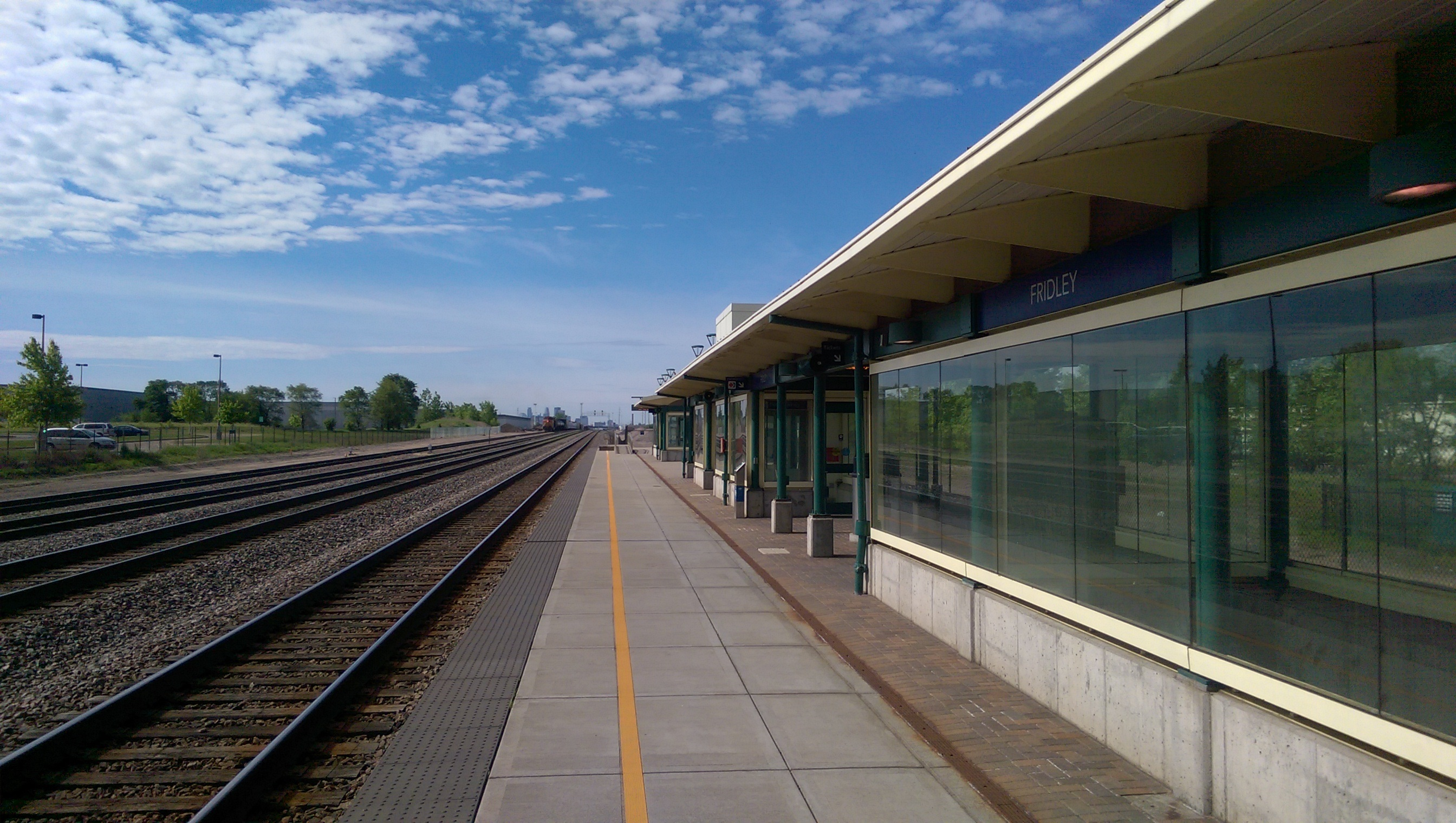 Looking south at the Northstar station in Fridley, Minnesota, United States.